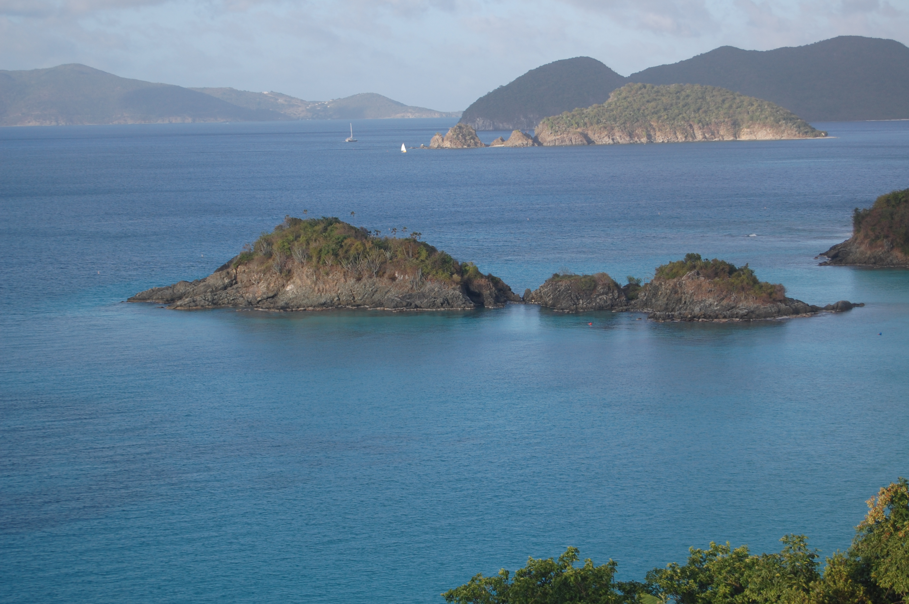 Trunk Bay, St John, U.S. Virgin Islands